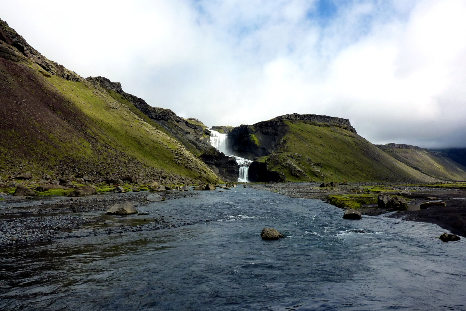 The waterfall Ófærufoss is located in the volcanic fissure Eldgjá.